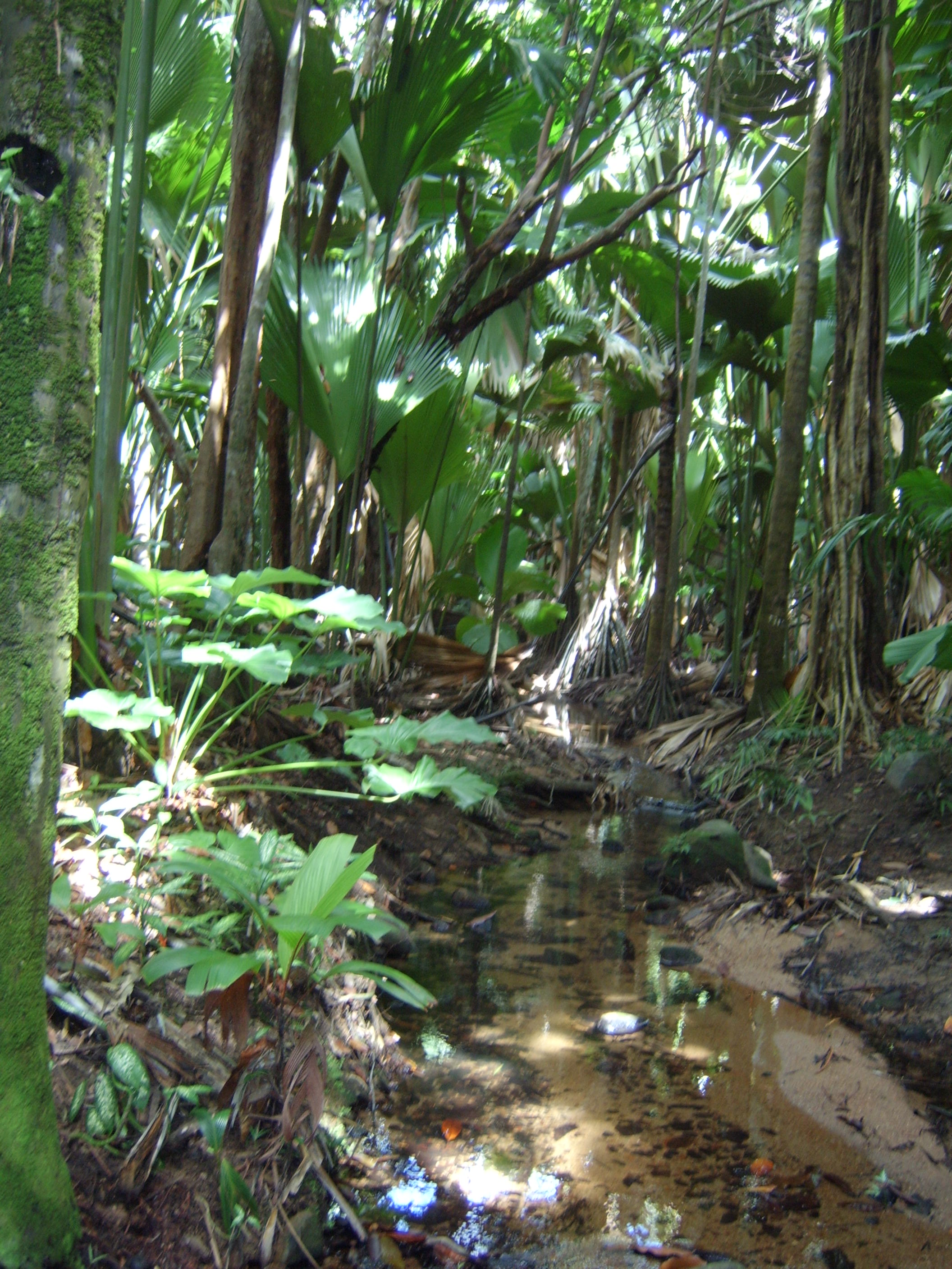 I took this photo on a visit to seychelles, taken September 2006.